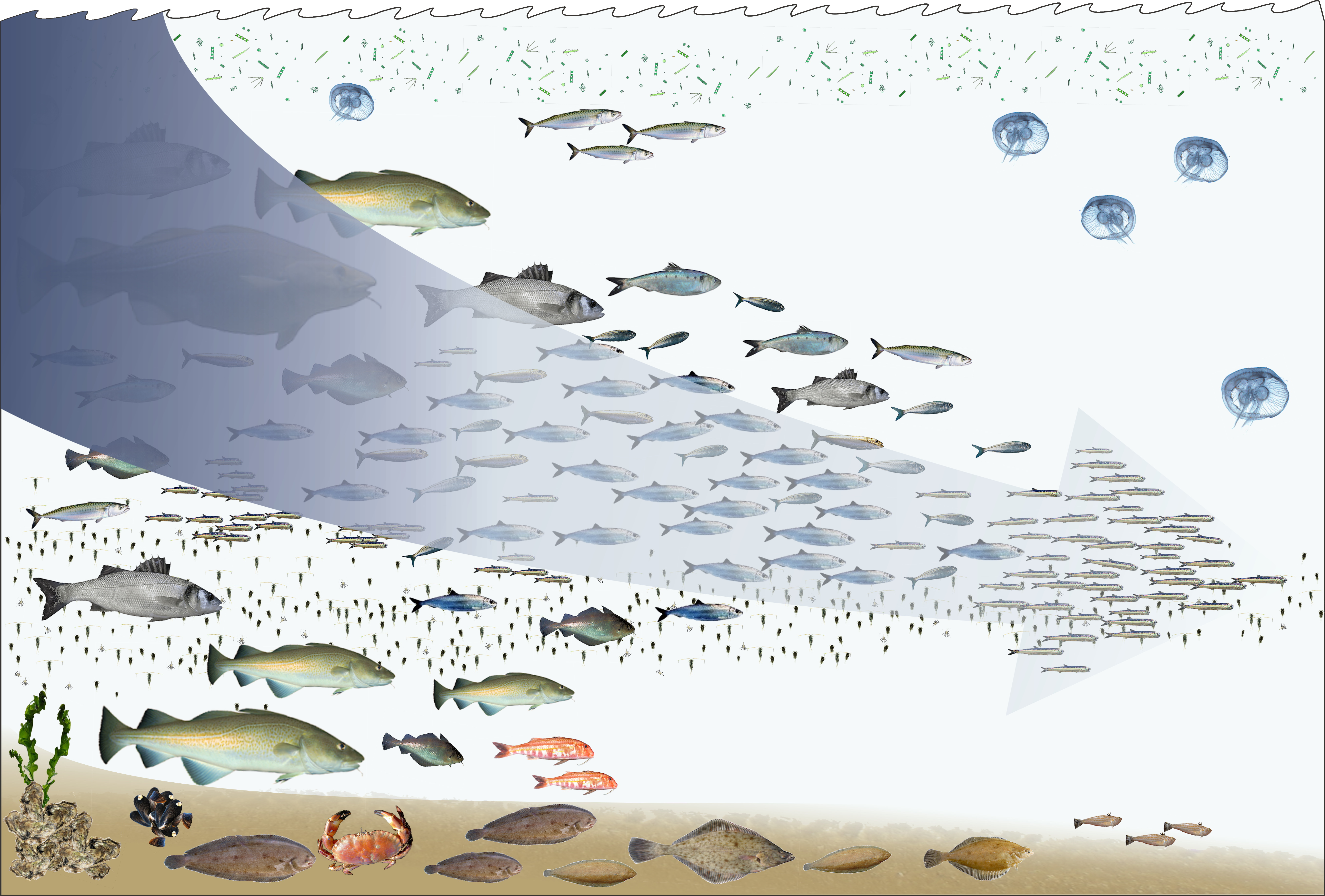 Fishing down the food web, a North Sea perspective. Inspired by the work of Daniel Pauly ([1]).